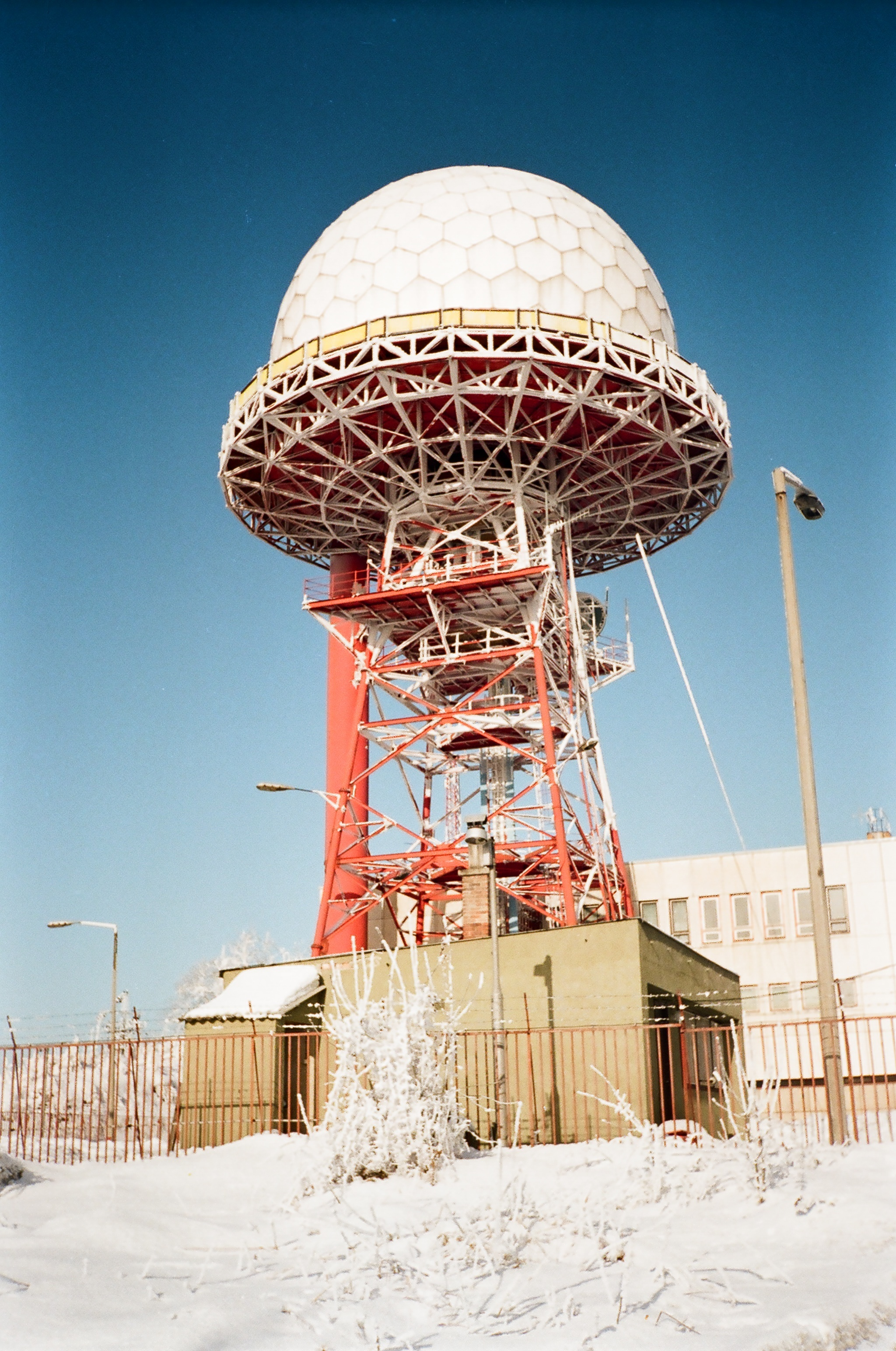 Kőris-hegy Radar Station near Bakonybél, Bakony Mountains, Hungary in December 1993